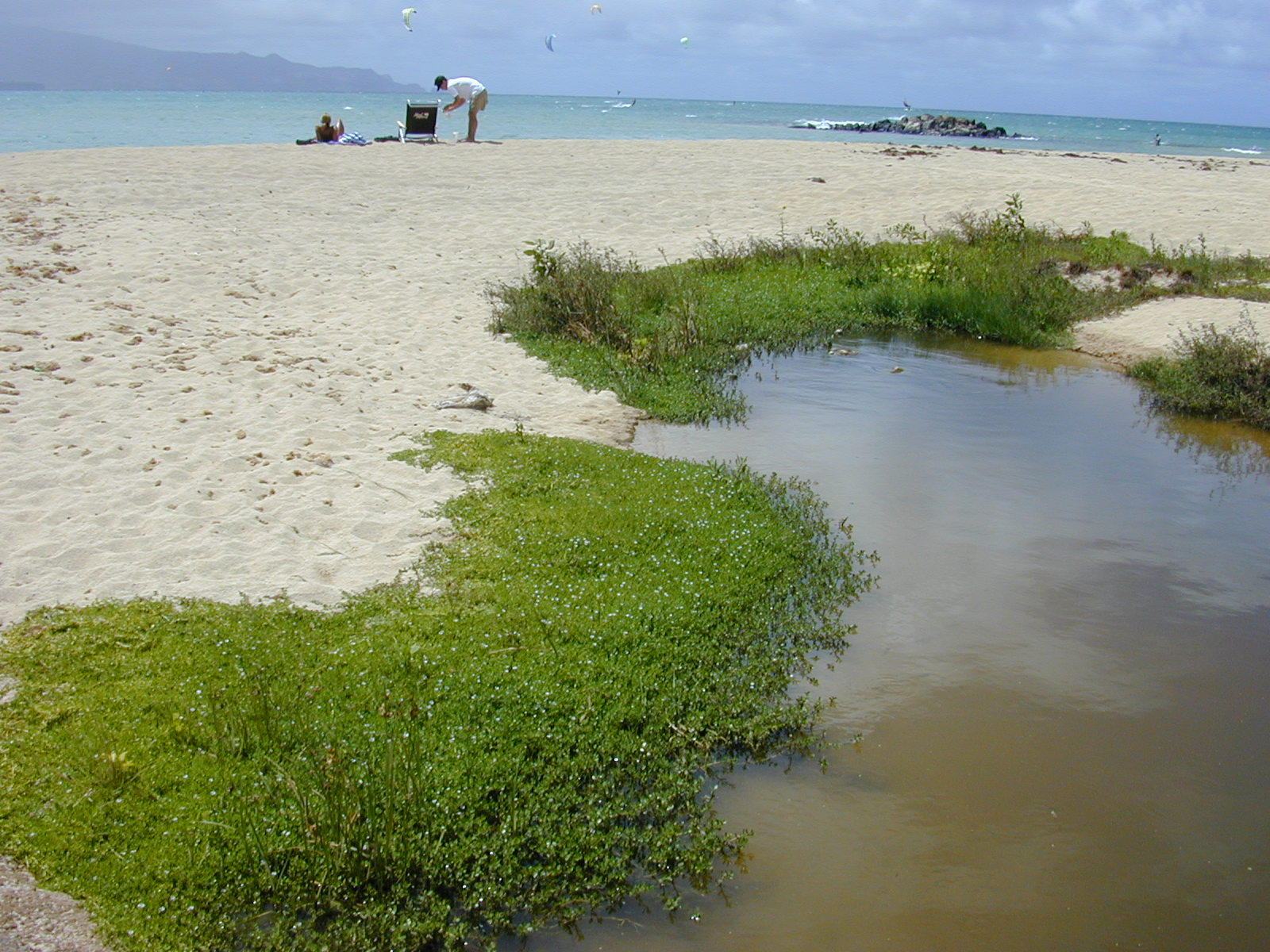 Bacopa monnieri (habit). Location: Maui, Kanaha Beach stream outlet